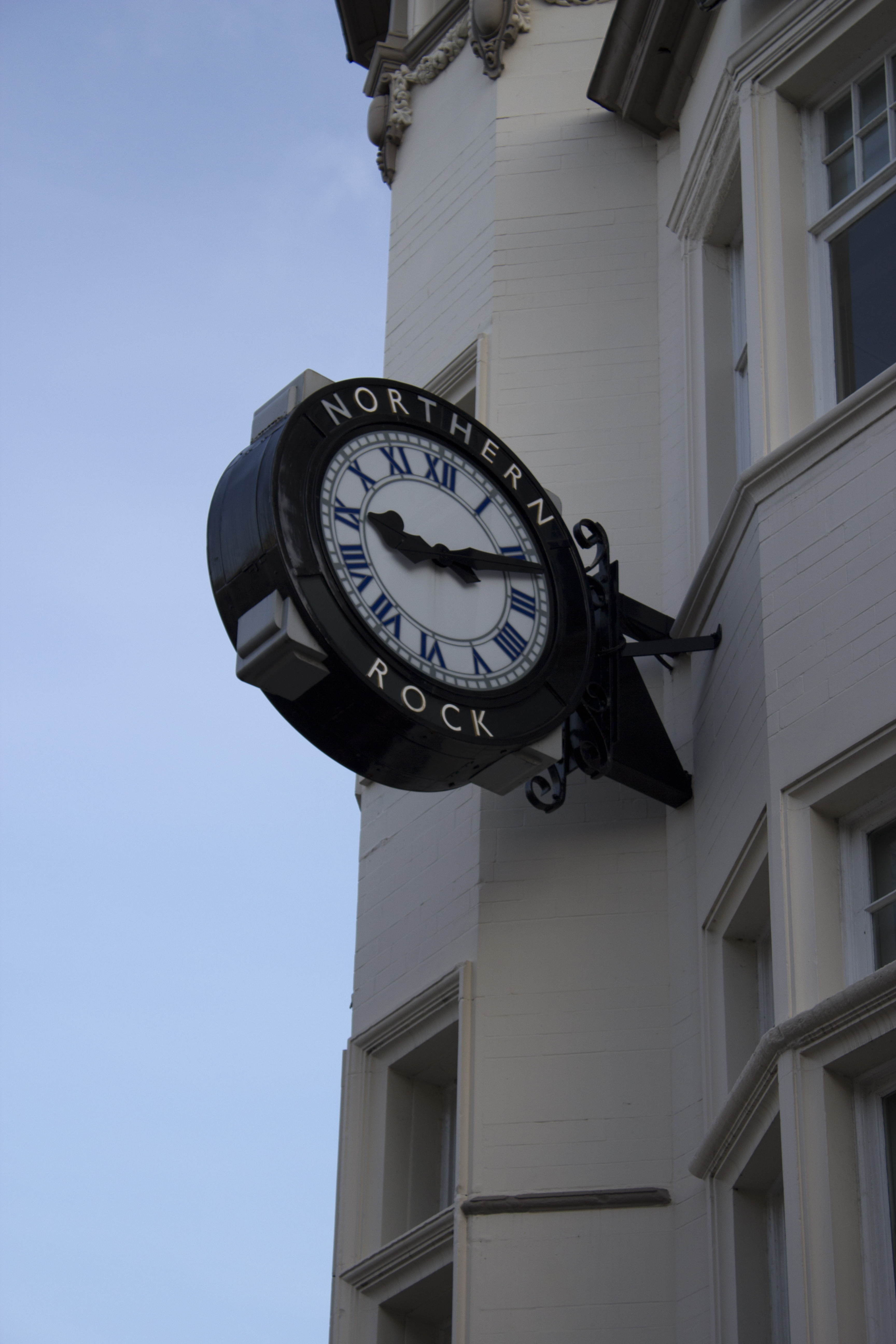 A branded clock above a branch of the Northern Rock Bank on Northumberland Street / Ridley Place, Newcastle upon Tyne, England in November 2011. The clock became a symbol of the bank when the bank was nationalised.